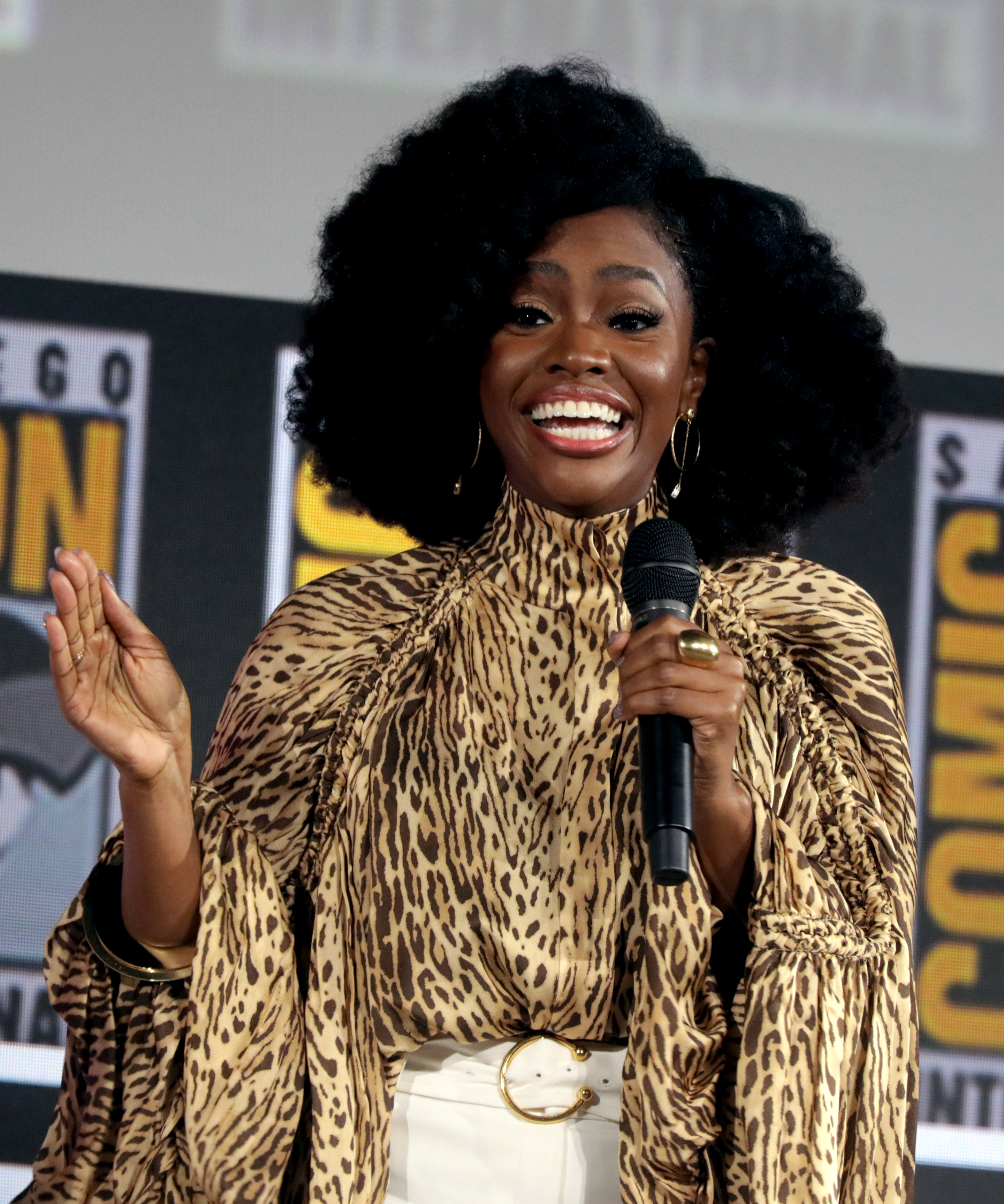 Teyonah Parris speaking at the 2019 San Diego Comic-Con International in San Diego, California.